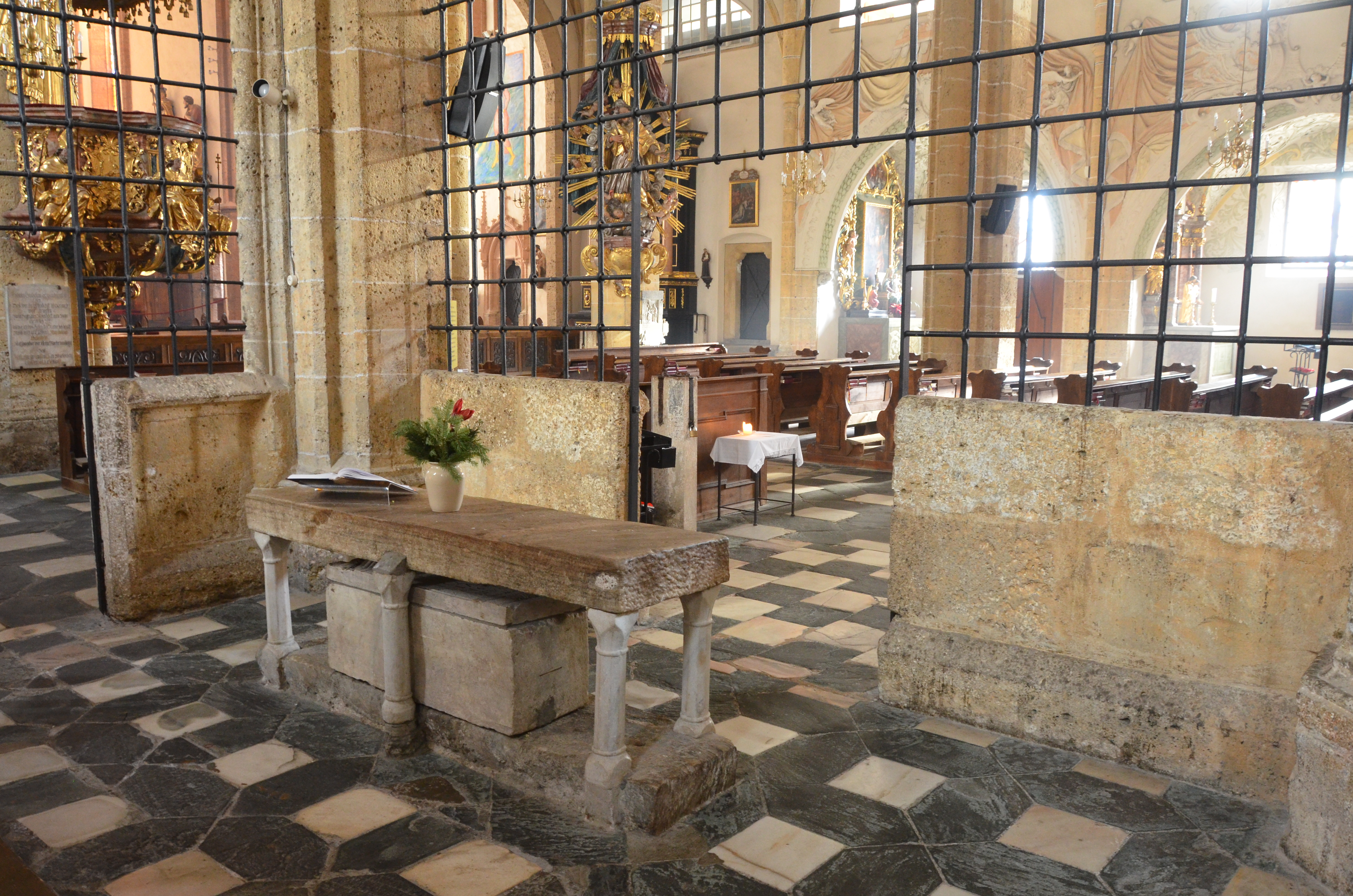 The assumed grave of saint Modest, Apostle of Carantania, at the provostry parish and pilgrimage church Assumption Day, market town Maria Saal, district Klagenfurt Land, Carinthia / Austria / EU